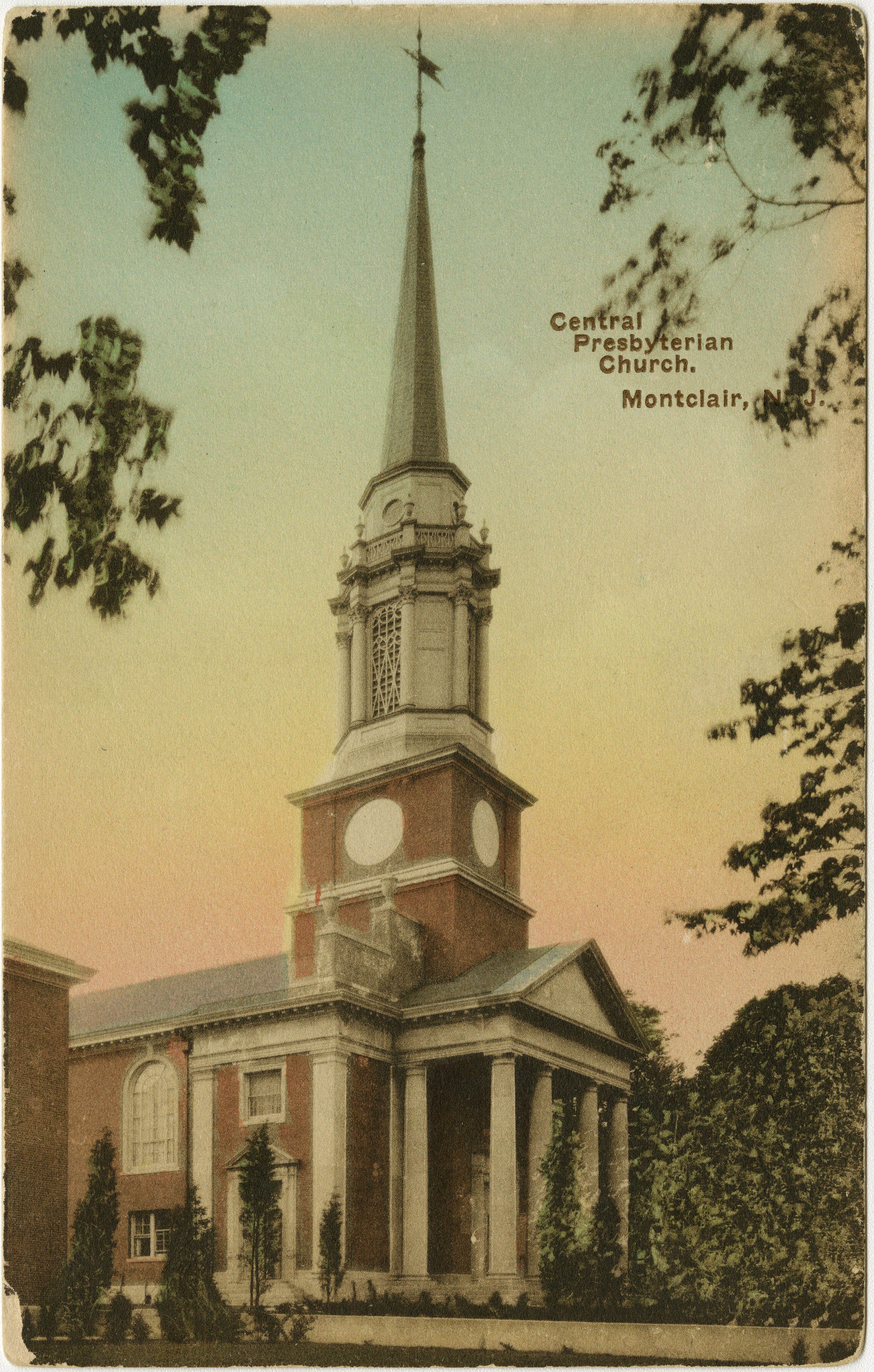 Central Presbyterian Church in Montclair, New Jersey from a pre-1923 postcard From RG 428, Postcard Collection, Presbyterian Historical Society, Philadelphia, Pennsylvania.